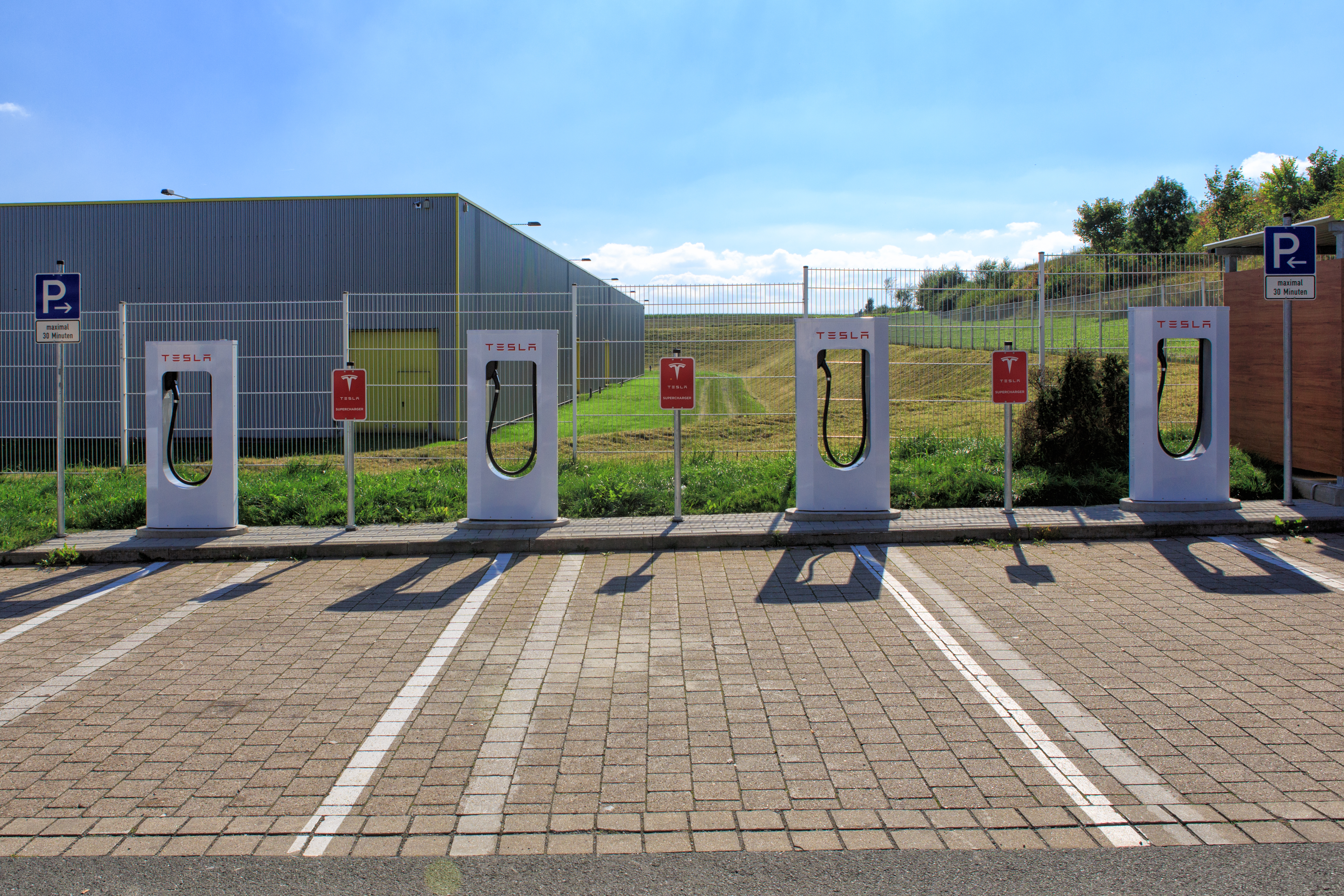 Tesla Supercharger Stations in Münchberg, Germany at the A9